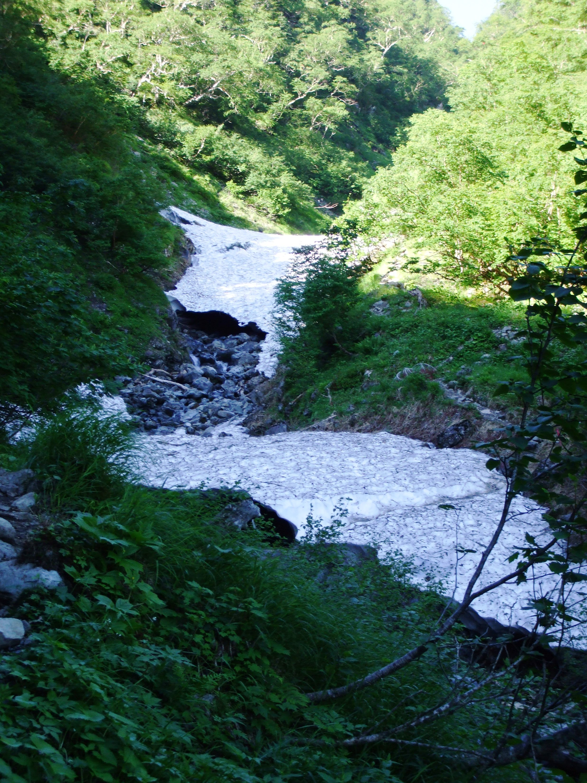 A Snowy Valley of Mount Senjō at the end of July. Taken by Mass Ave 975.